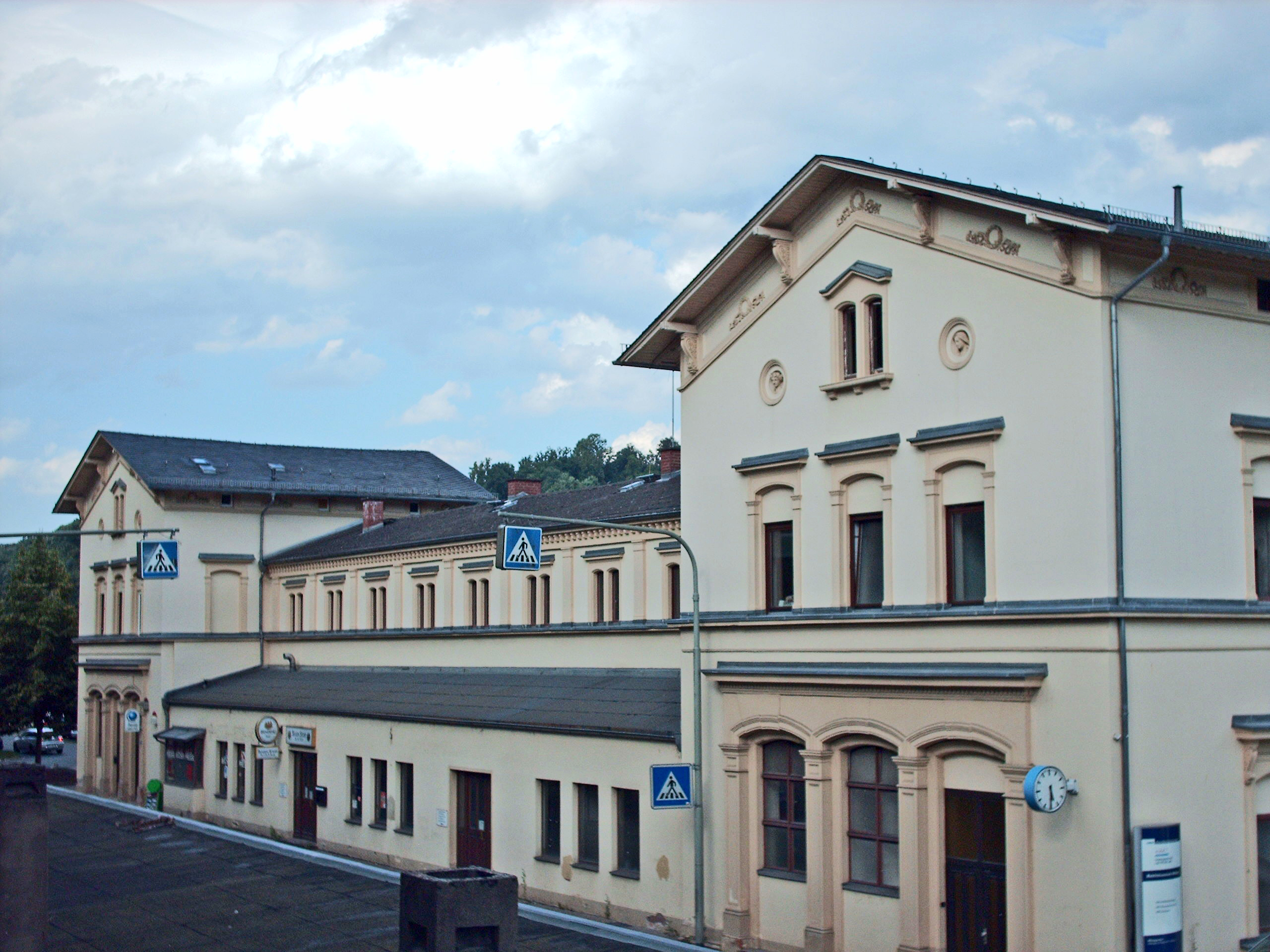 Railway station, Weilburg, Germany check usage